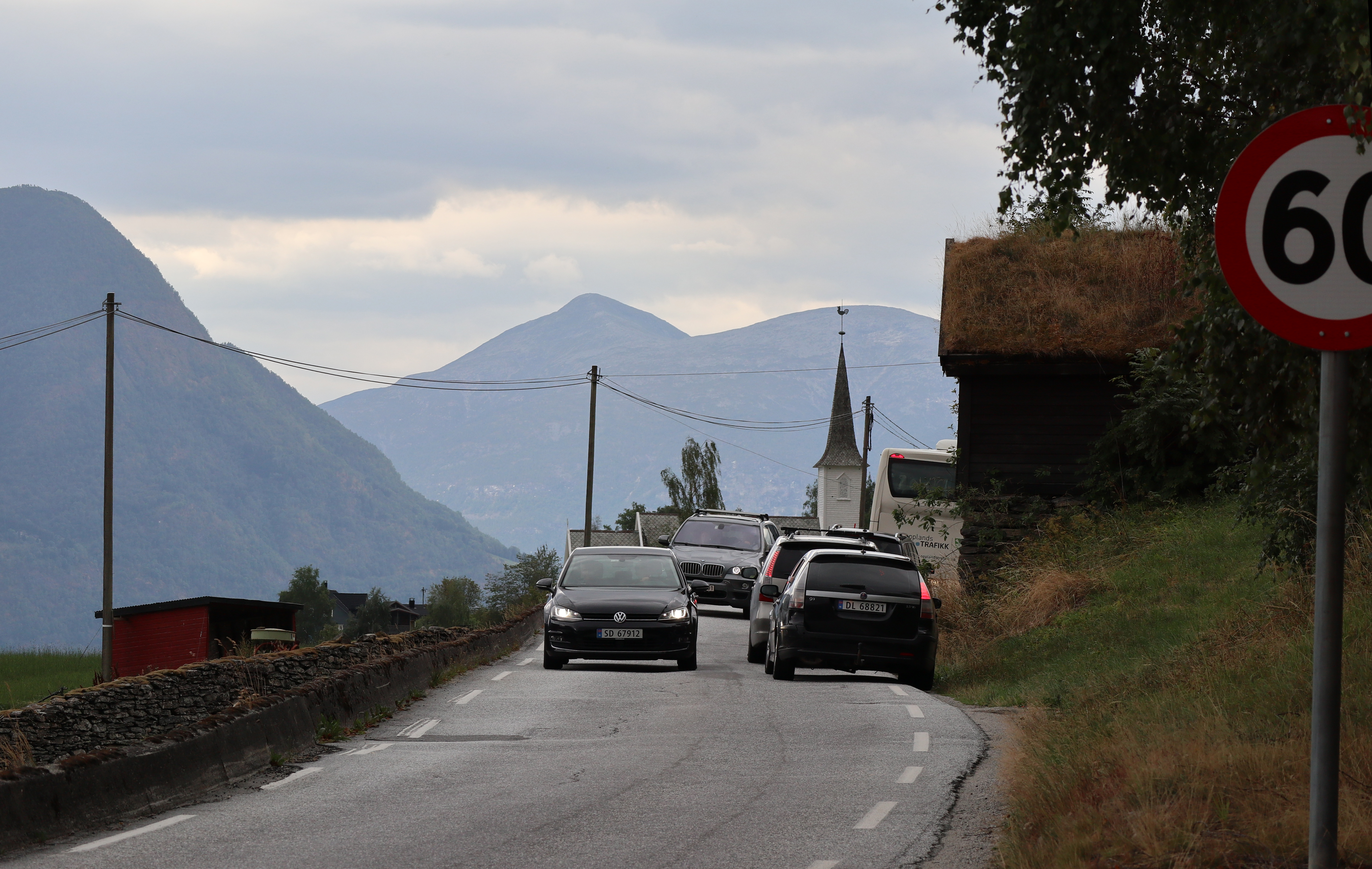 Main Road 55 in Norway